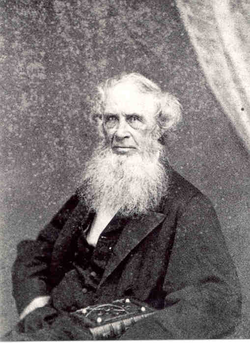 Cyrus Pitt Grovesnor (October 18, 1792 – February 11, 1879) was an American Anti-Slavery Baptist minister.